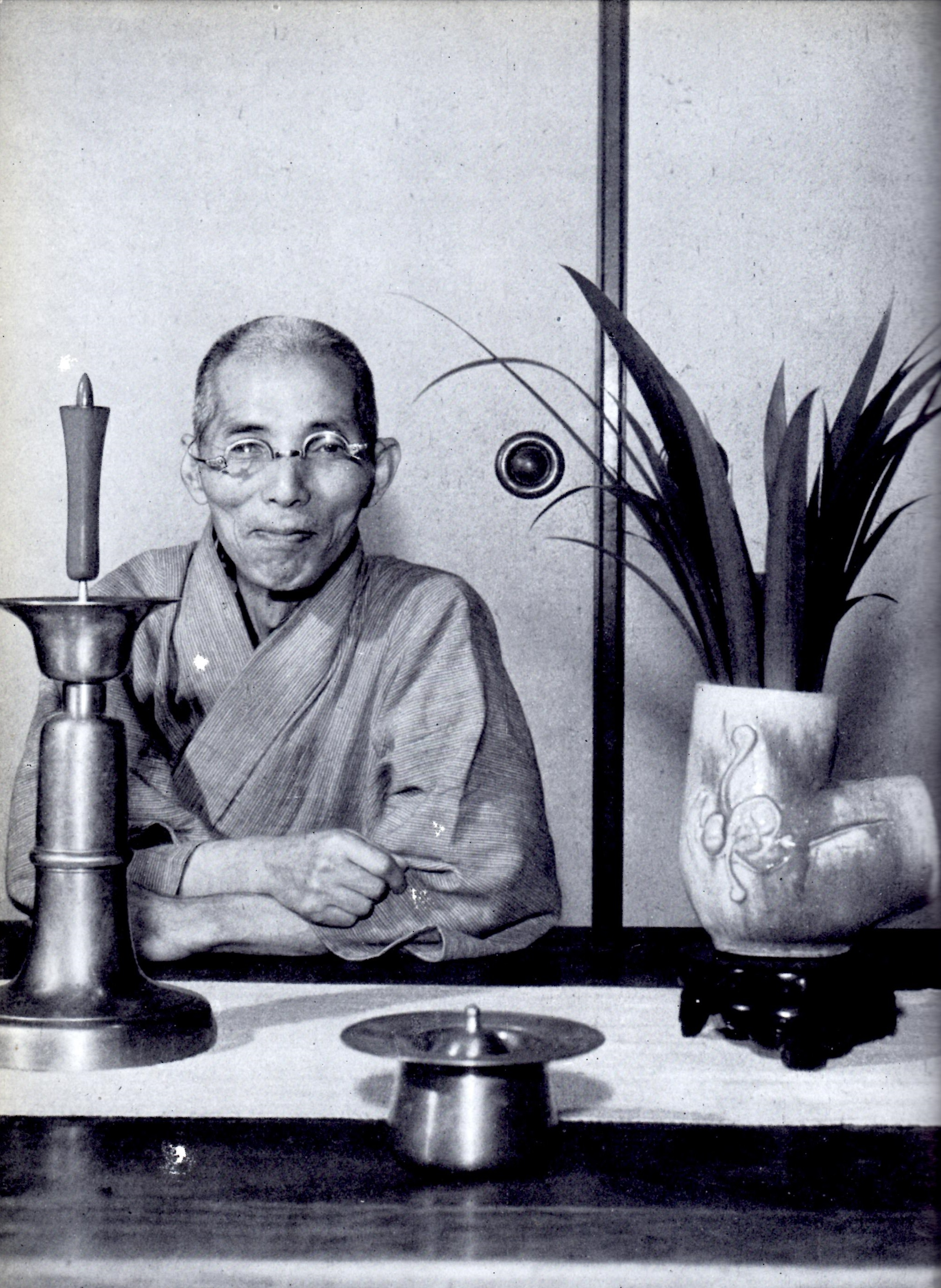 Japanese ceramic artist and writer, Kawai Kanjirō (1890-1966)